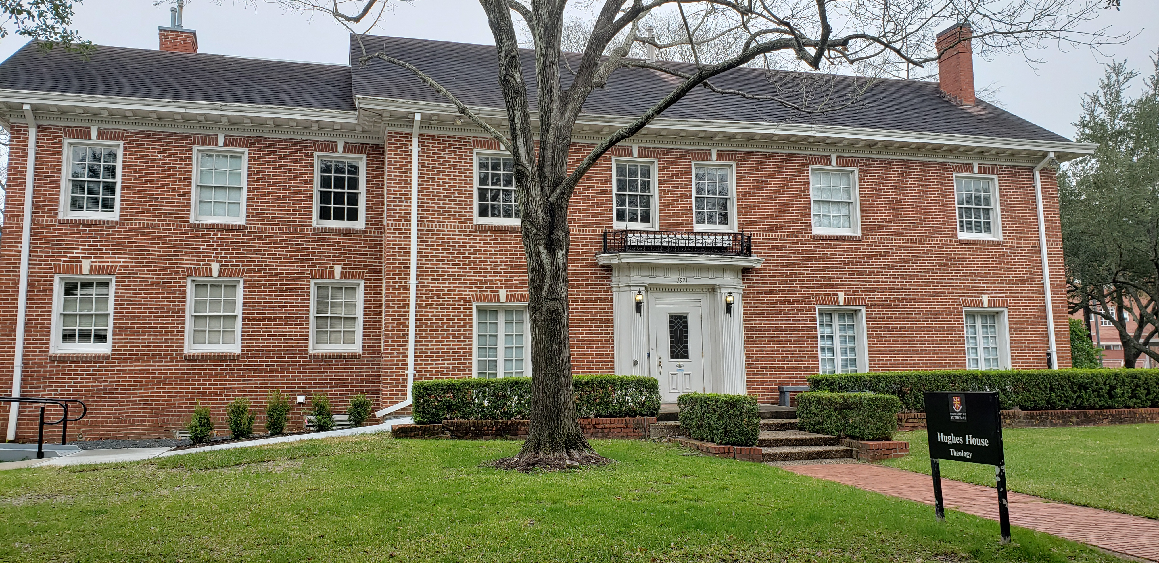 House Hughes at 3921 Yoakum, Houston